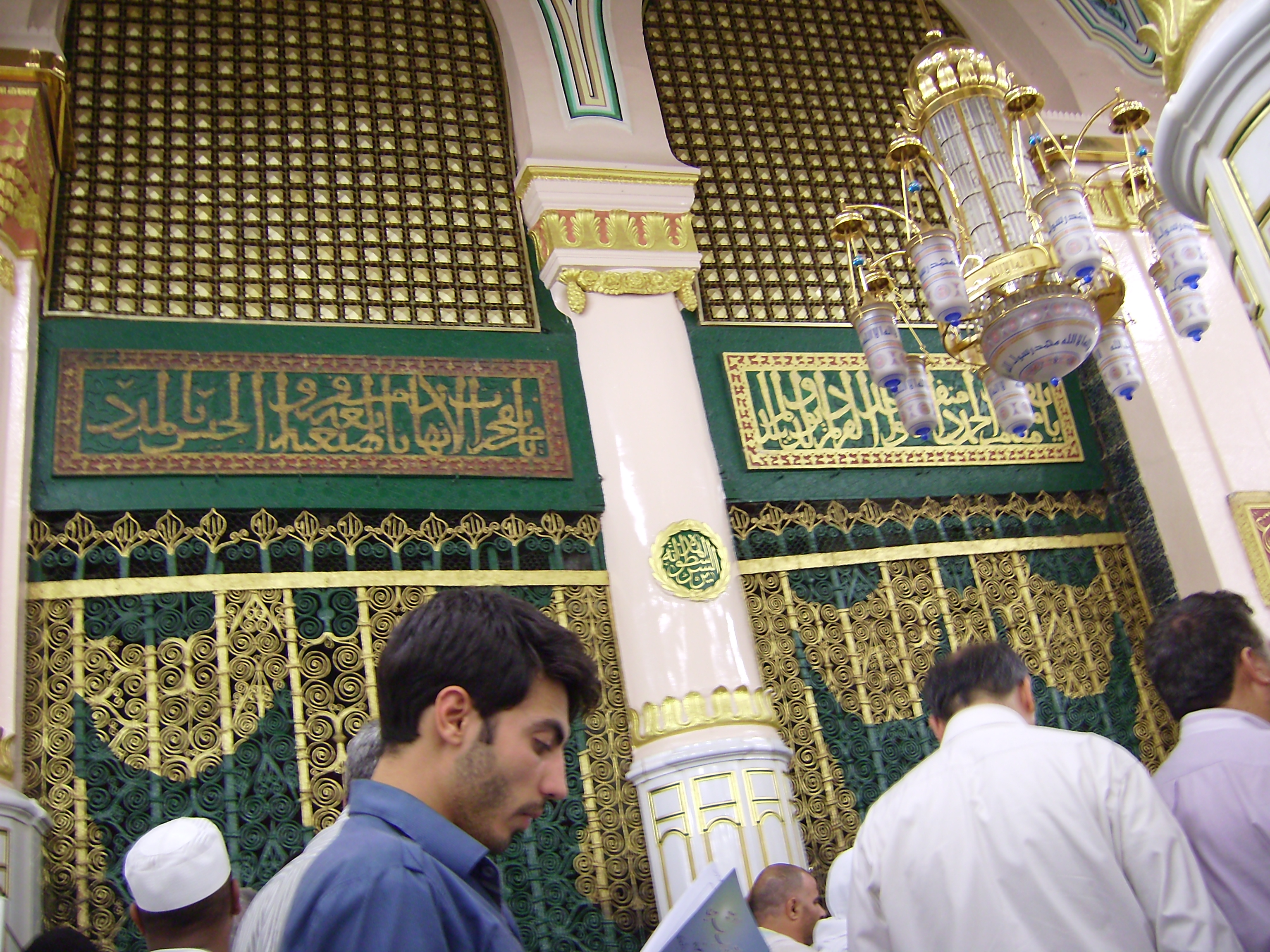 Al-Masjed Al-Nabawi, Hujrah